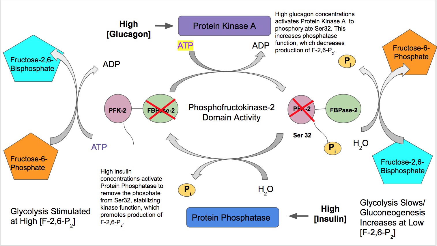 Diagram depicts how liver tissue PFK-2 is differentially controlled in response to hormonal signaling. Concentrations of hormones insulin and glucagon prompt different enzyme pathways that phosphorylate/dephosphorylate PFK-2 to shift the active domain. Upon domain activity stabilization, fructose-2,6-bisphosphate is either produced or degraded, which impacts rate of glycolysis.